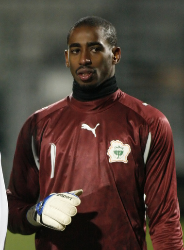 Ivorian player Boubacar Barry during match Guinea vs. Côte d'Ivoire at Stade Robert Diochon, Rouen, France.